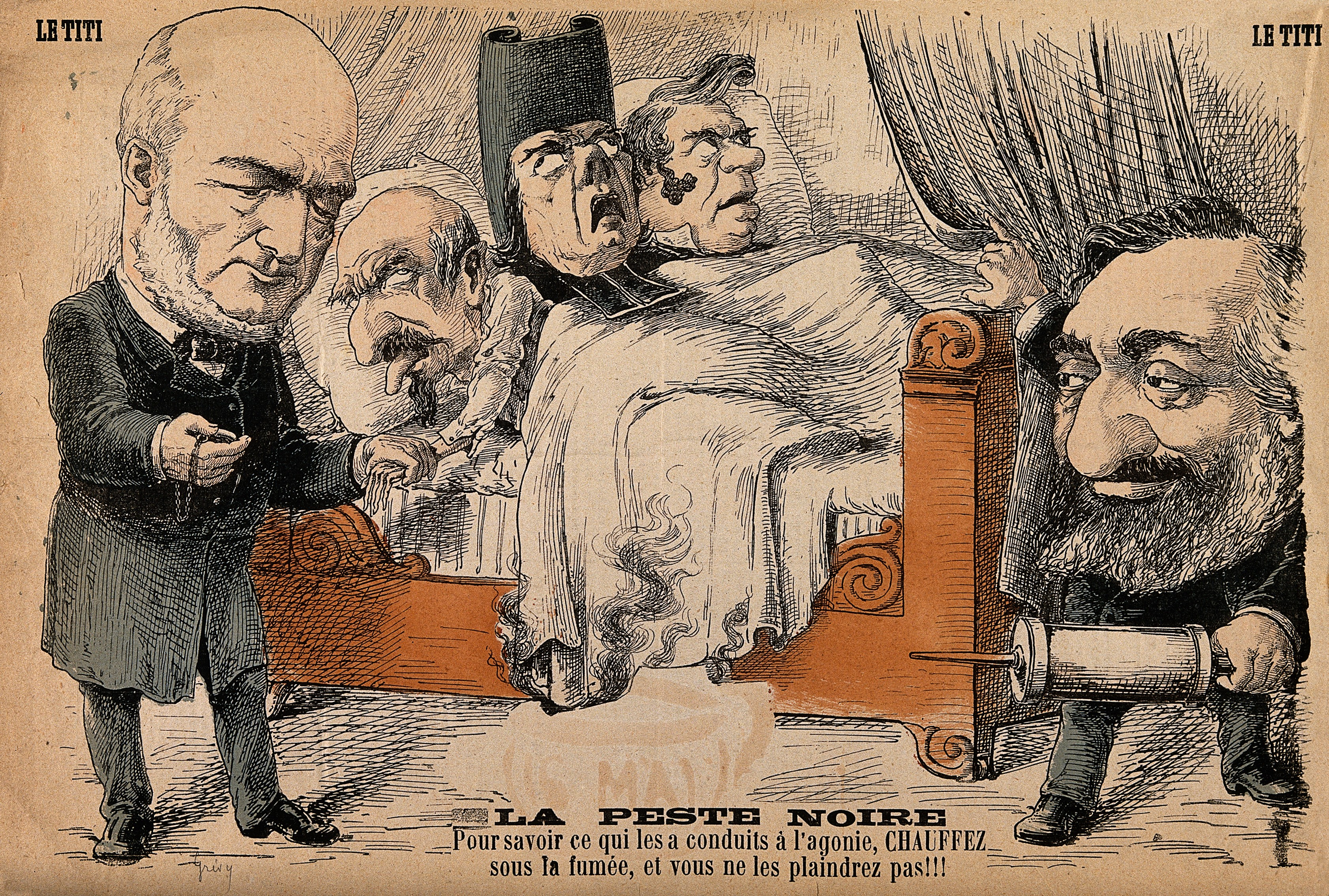 Jules Grévy takes the pulse of bonapartism, who lies sick in bed with clericalism and orleanism; they are choking from the fumes of their burning bed; Léon Gambetta emerges from behind the scenes carrying a clyster. Coloured wood engraving, 1879. Iconographic Collections Keywords: Caricatures; FIRE; PRIESTS; Léon Gambetta; Fires; pulse - measurement; Smoke; wood engravings; Jules Grévy